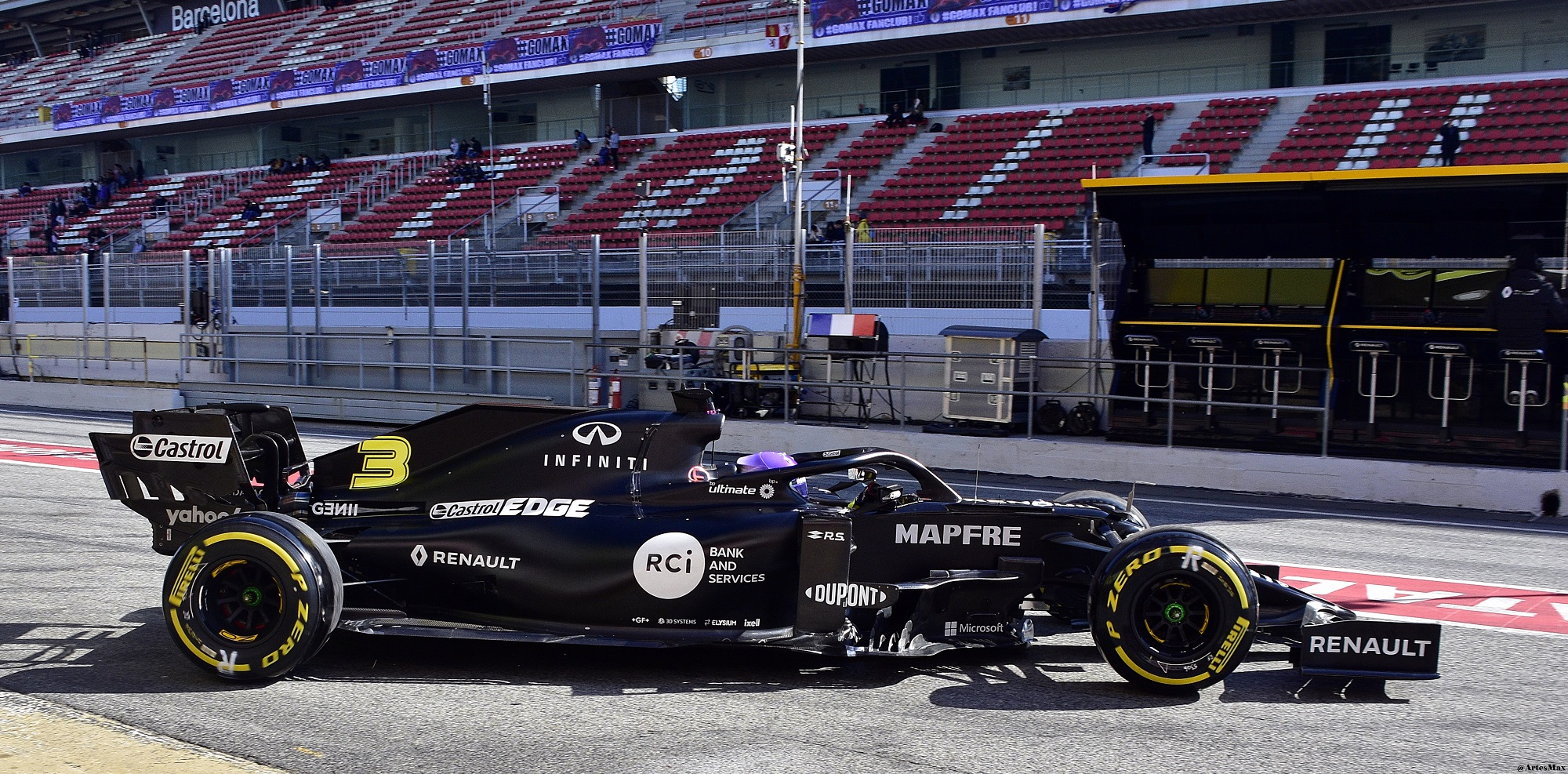 Formula 1 Pre-Season Testing 2020 / Circuit de Barcelona / Renault R.S.20 / Daniel Ricciardo / AUS / Renault F1 Team